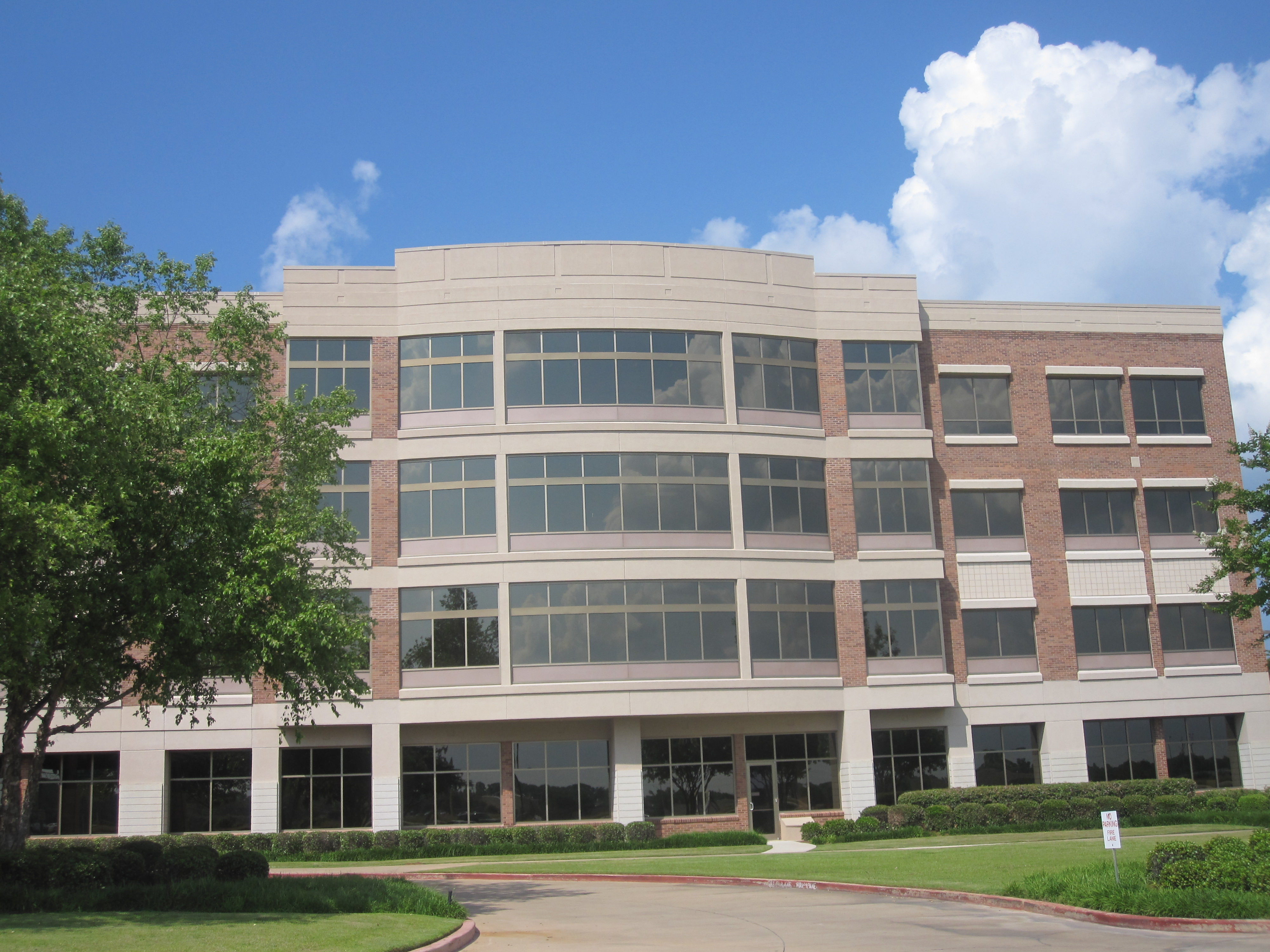 I took photo of a hospital in Bossier City, LA, with Canon camera.